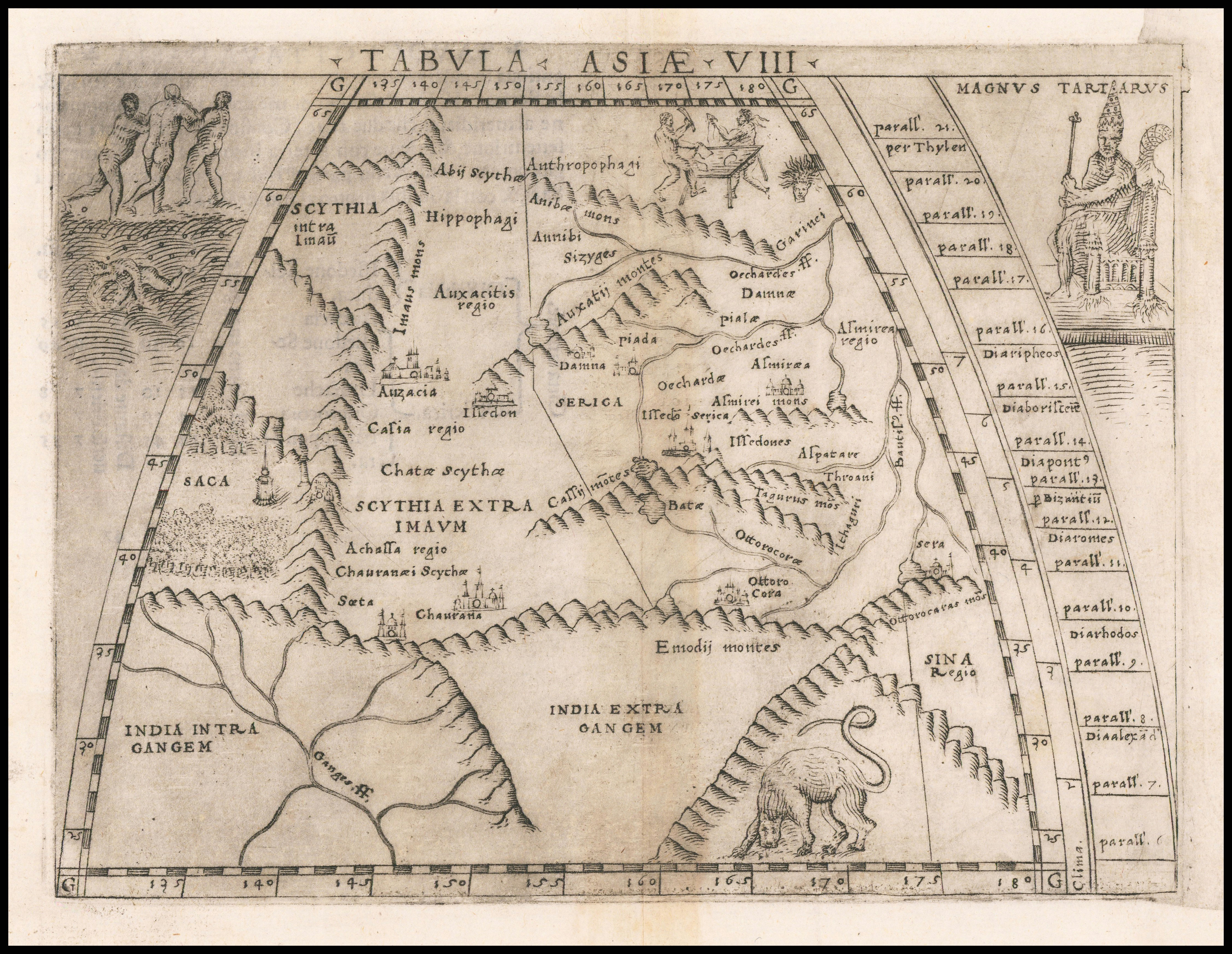 Giacomo Gastaldi is considered as the foremost Italian cartographer of the 16th century along with Paolo Forlani. From Piedmont, Gastaldi established his reputation in Venice and was cosmographer to the Republic of Venice. Gastaldi enjoyed a productive relationship with Giovanni Ramusio, Secretary of the Venice Senate, who used Gastaldi's maps for his Navigationi et Viaggi. This map is from Gastaldi's edition of Ptolemy, Ptolemeo. La Geografia..., begun as early as 1542 and published in Venice in 1548. •Barry Lawrence Ruderman•